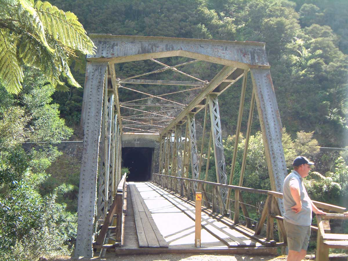 Karangahake Gorge Rail Bridge. Taken by me, Ben Davies, March 2005, using a FijiFilm FinePix 6800. digital camera.